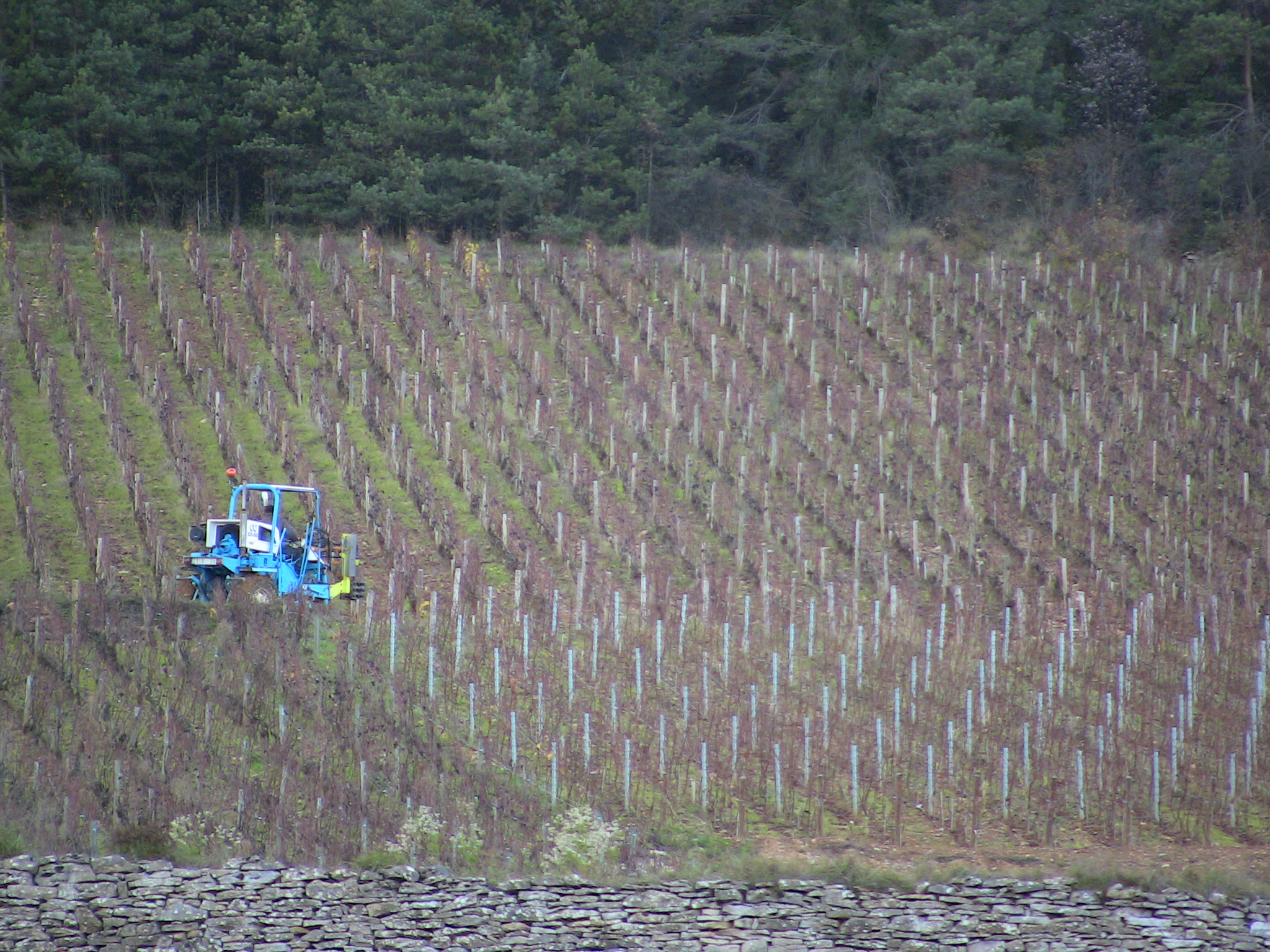 Grape harvester in vineyard, Burgundy wine region, France